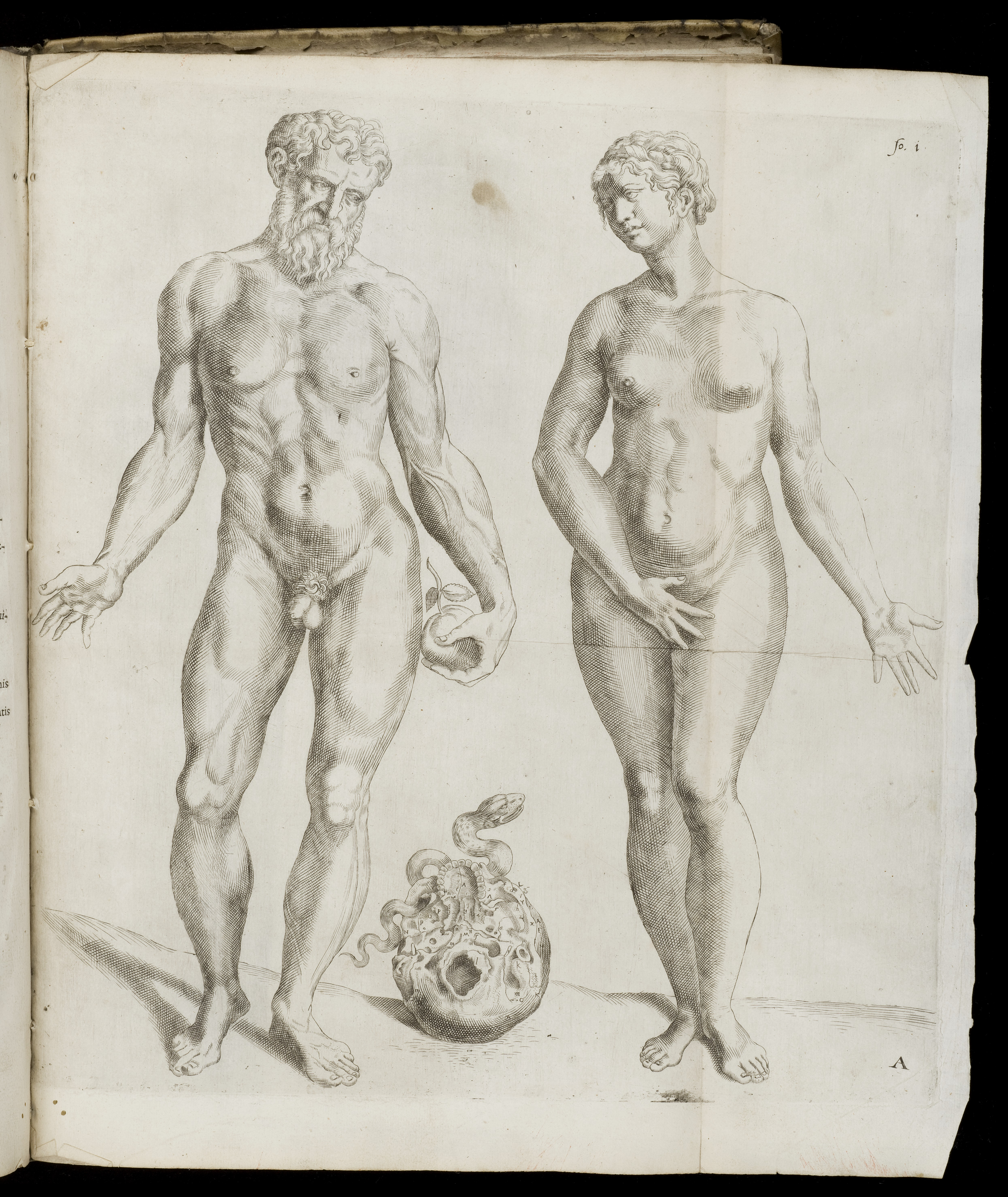 Plate 1, Adam and Eve, Vesalius, 'De Humani Corporis Fabrica Epitome' Rare Books Keywords: Anatomy